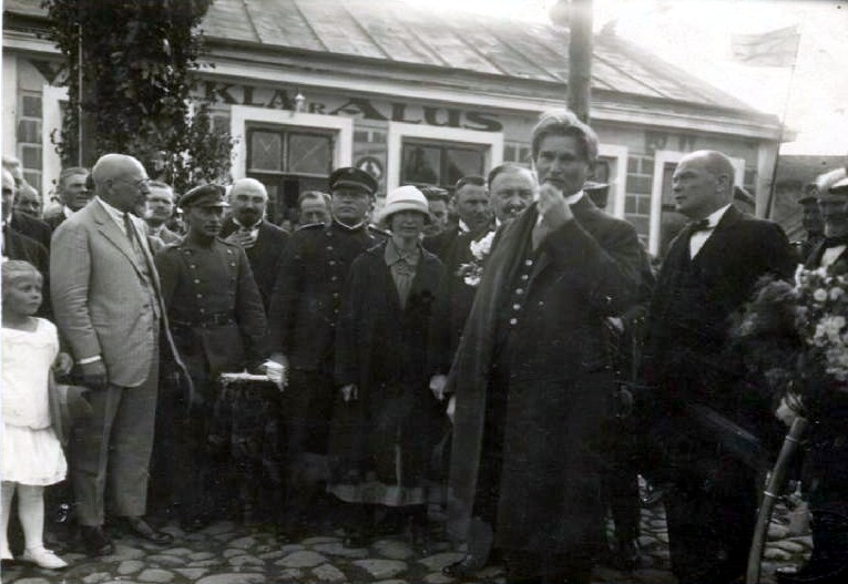 Kazys Grinius, president of Lithuania and chairman of city selfgowernement Kazimieras Venclauskis in Šiauliai, 1926 (Museum Aušra)